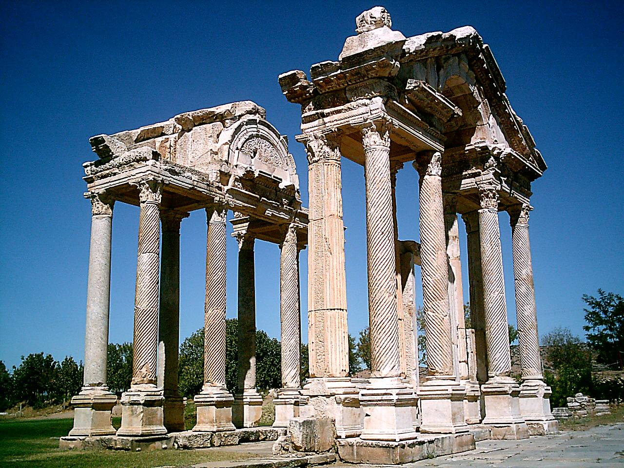 Description Tetrapylon in Aphrodisias DateSeptember 2004Sourcenl::en:Image:Aphrodisias templeofaphrodite.jpgAuthorM. Chloe MulderigPermission (Reusing this file) PD-self Other versions nl::en:Image:Aphrodisias templeofaphrodite.jpg Categorie:Afbeelding oudheid Image:Aphrodisias templeofaphrodite.jpg Tetrapylon in Aphrodisias